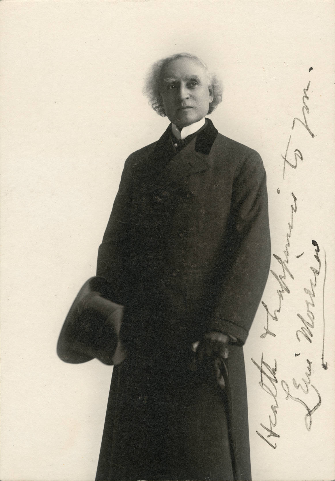 Lewis Morrison, stage actor Subjects: actors